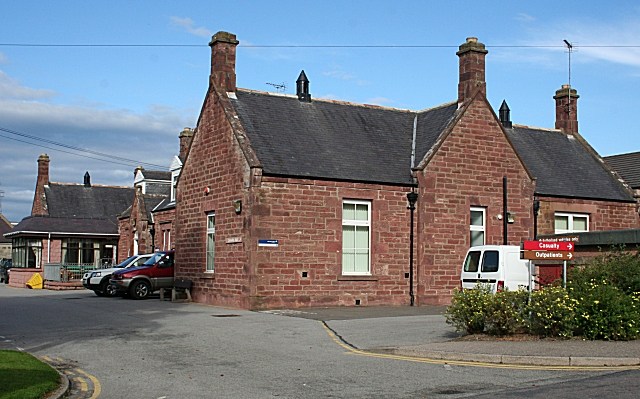 Turriff Cottage Hospital One of a decreasing number of cottage hospitals. Like most of the older buildings in Turriff, this one is built of the local red sandstone.